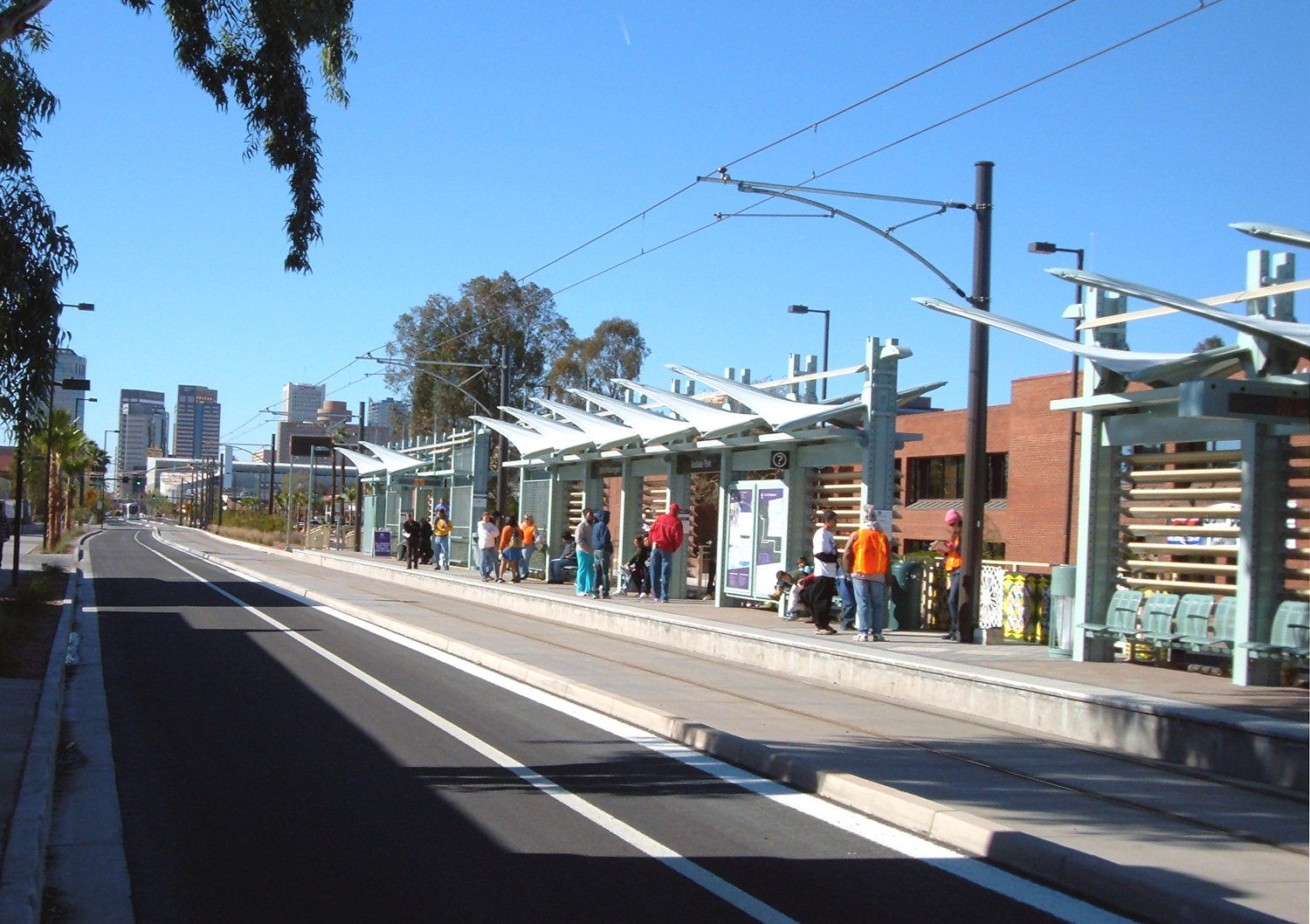 Photograph of the Eastlake Park (or Washington at 12th Street) Station of METRO Light Rail that serves the Phoenix area, Arizona, USA. This is the westbound station, located about 600 feet north of the eastbound station. Visible in the right background are the skyscrapers of downtown Phoenix. This photograph was taken during the light rail's grand opening celebration on December 27, 2008.